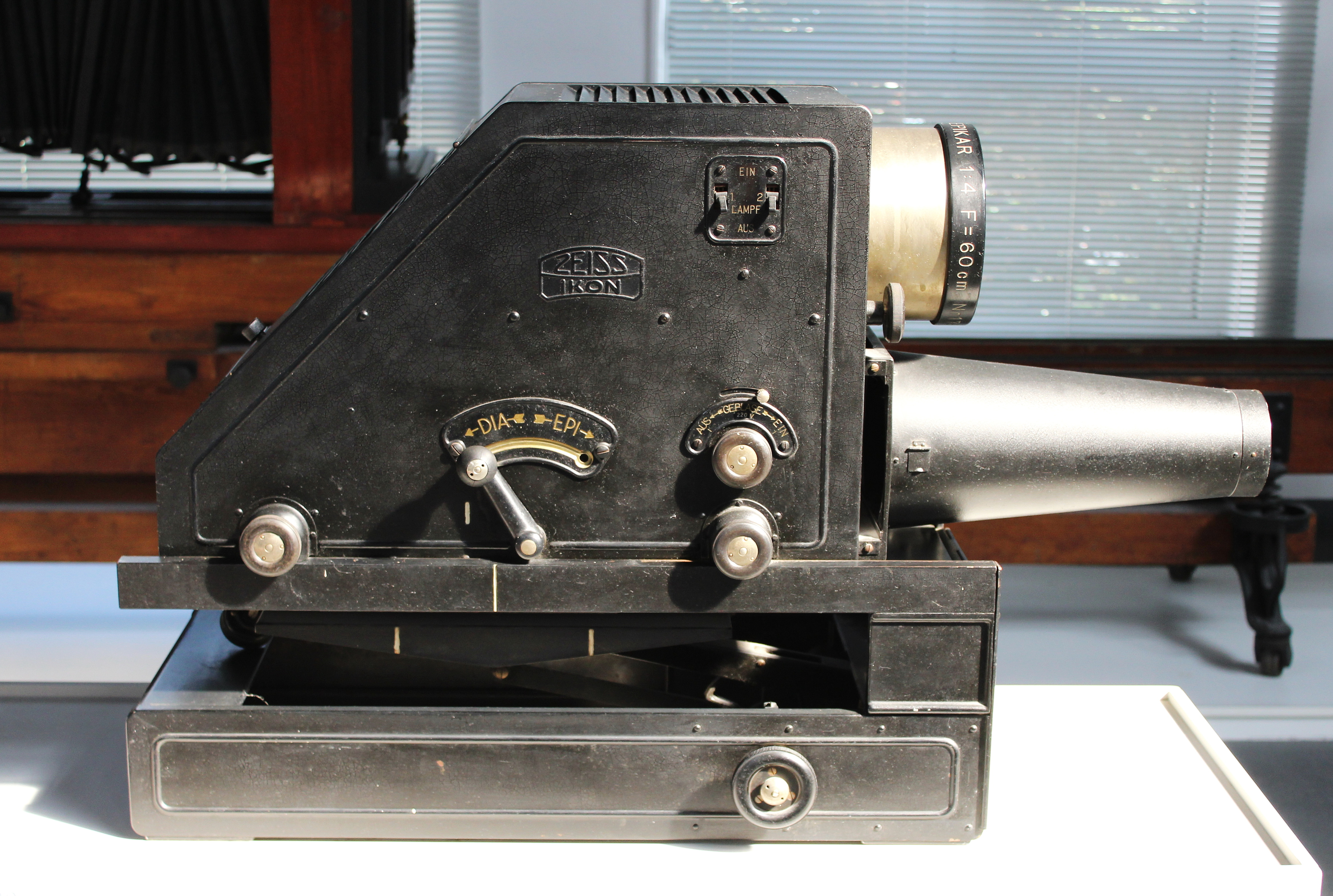 Episcope in Museum of Science and Technology Belgrade.